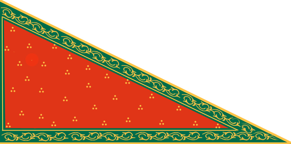 Flag of the Sikh Empire, based on paintings of that era